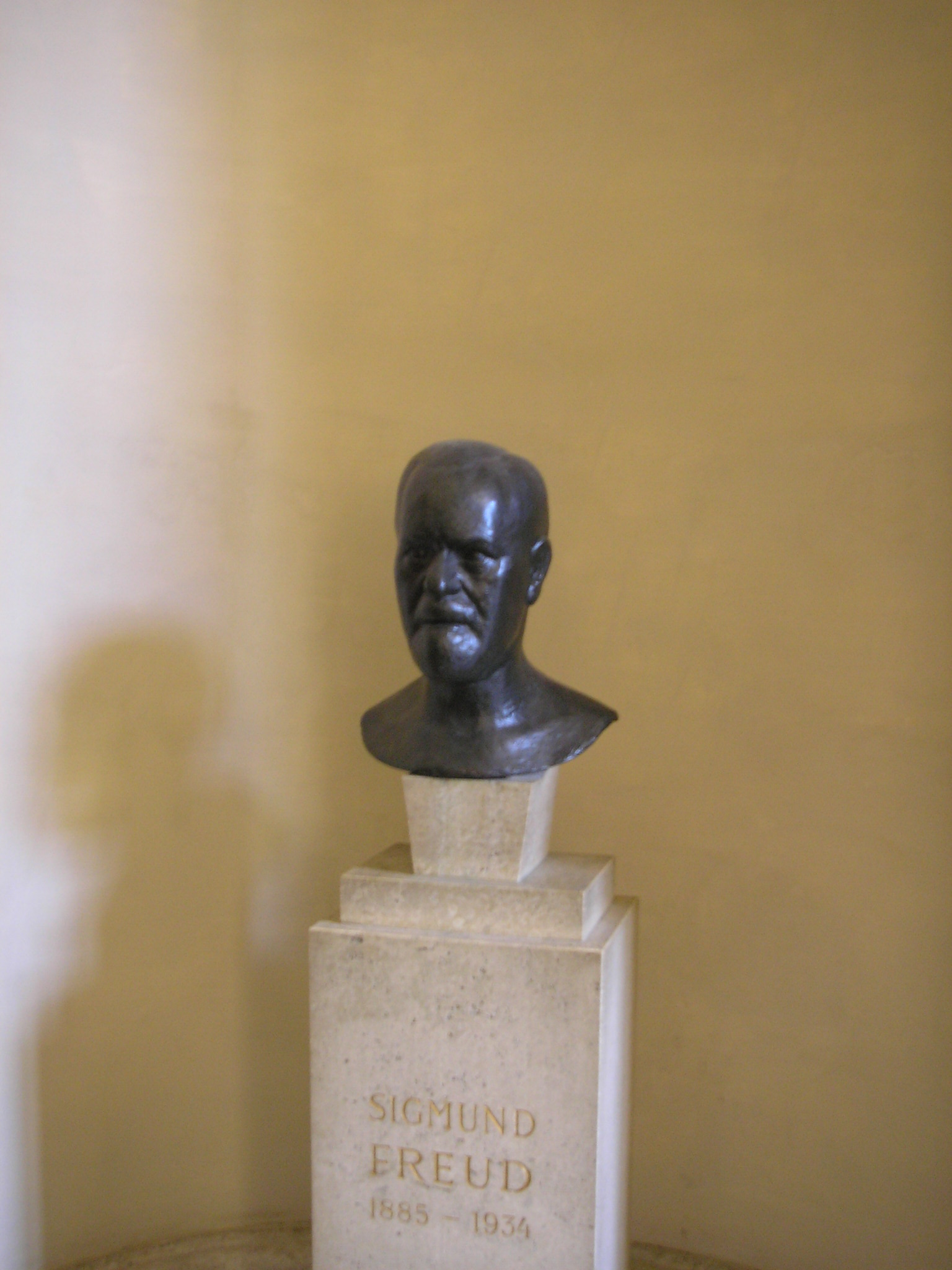 Image of the bust of Sigmund Freud in the University of Vienna. Commissioned in 1920 by Max Eitingon (1881–1943), a friend and pupil of Freud, by the Viennese sculptor (David) Paul Königsberger.